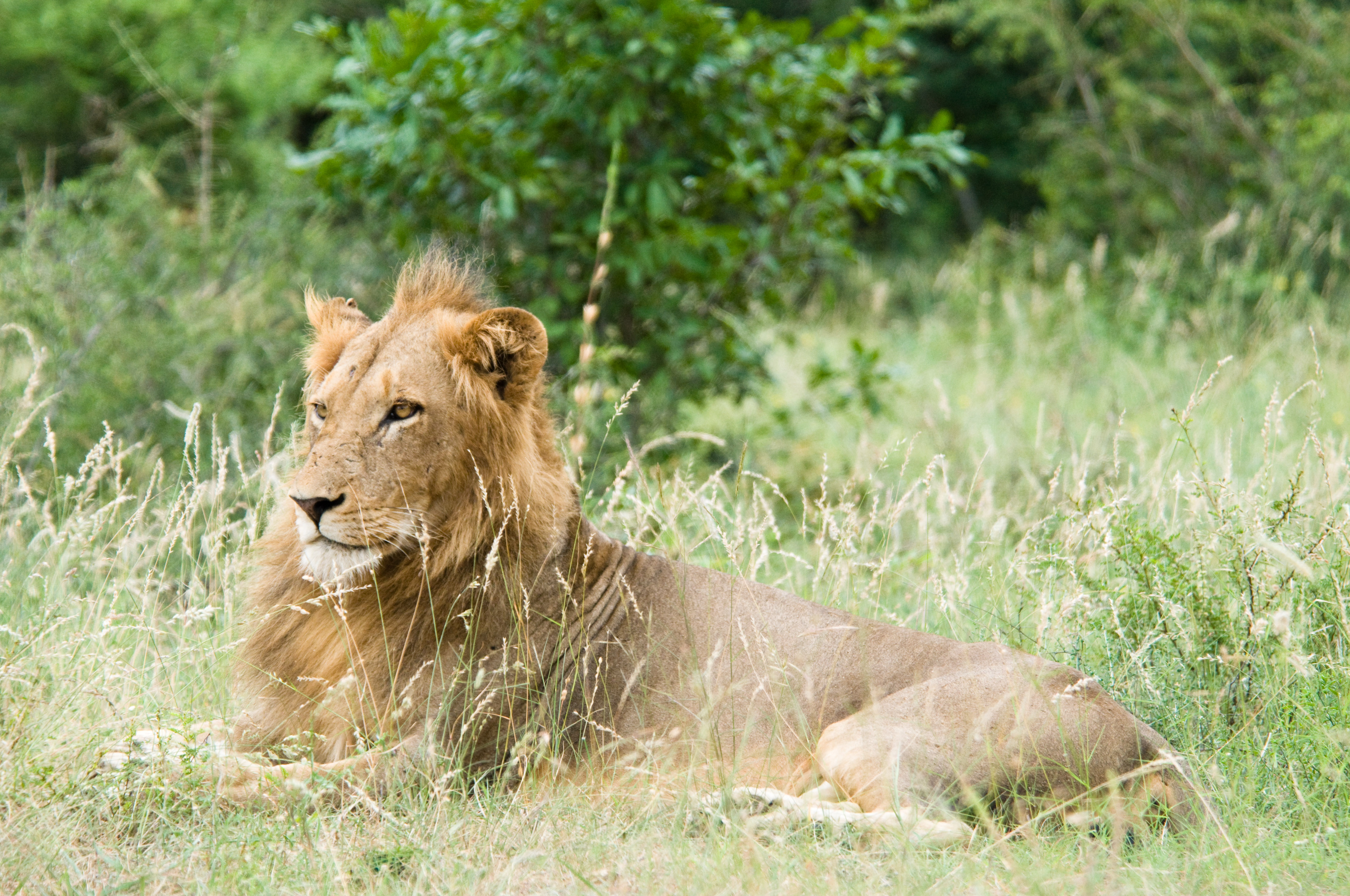 A Lion in Kruger National Park, South Africa